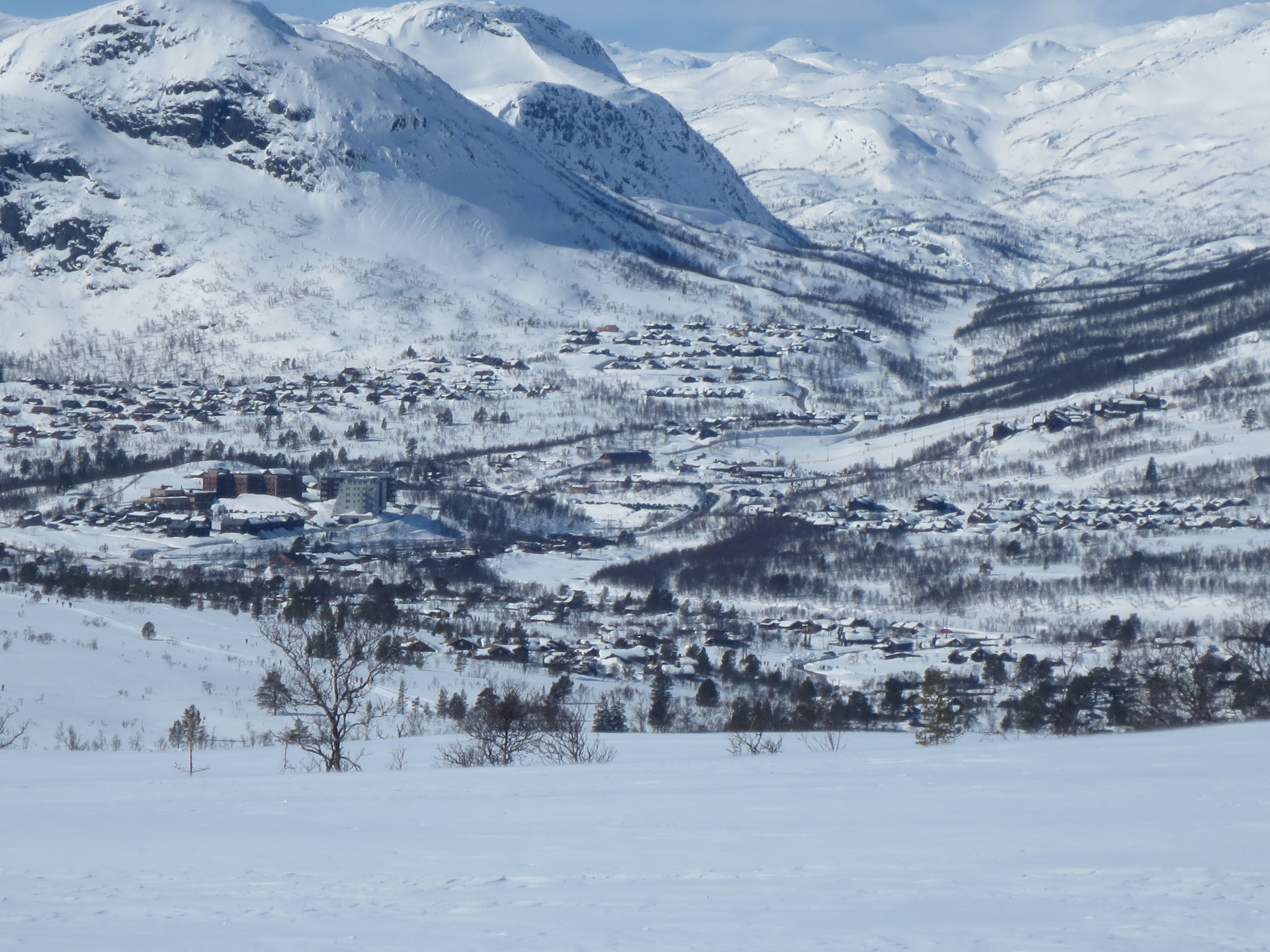 Image from the Hovden ski resort settlement in upper Bykle municipality, upper Setesdal valley, Aust-Agder county (Norway)